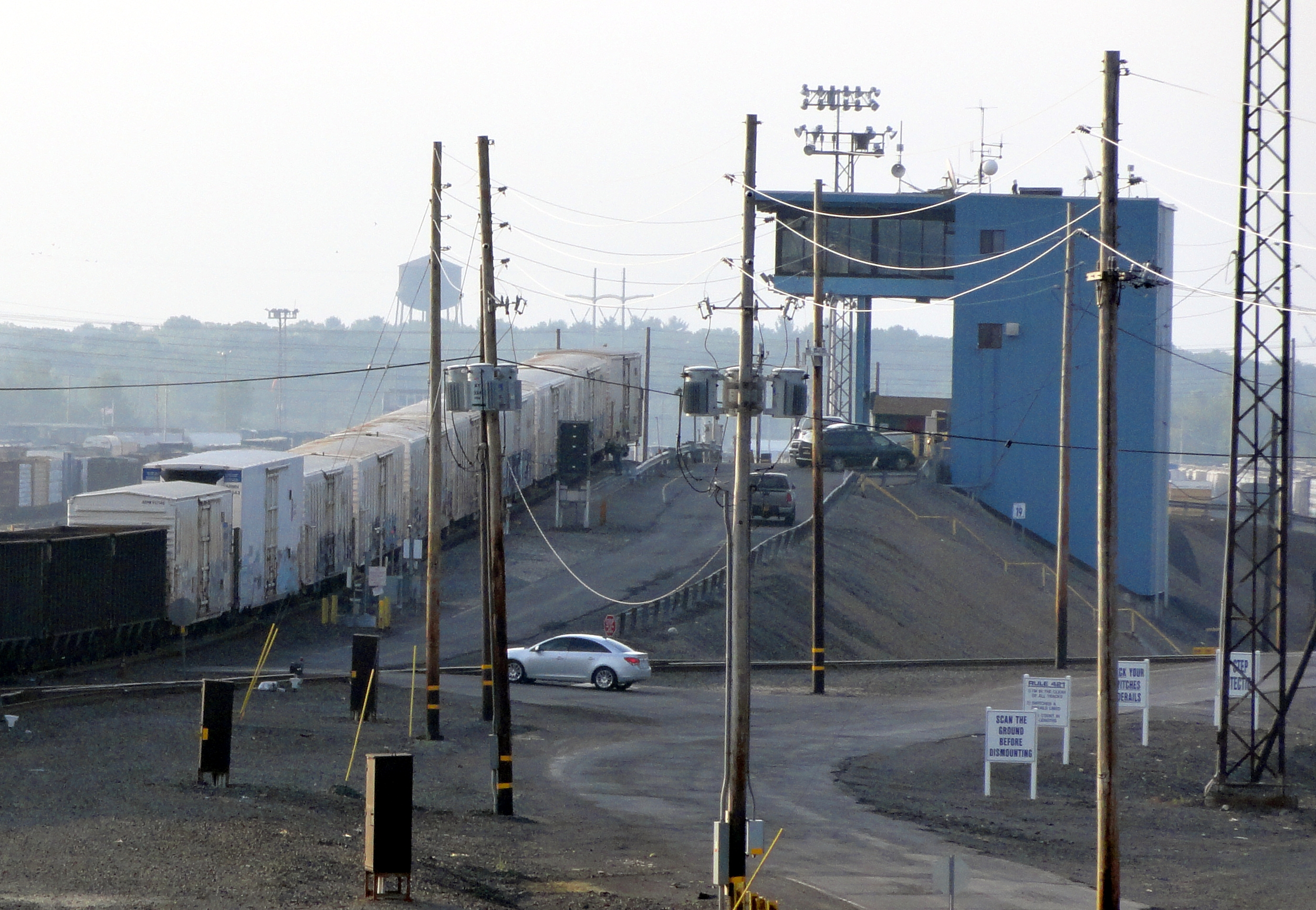 Close-up view of the hump and control tower at Selkirk Yard, south of Albany, New York, owned by CSX Transportation. A freight train in the receiving yard is being pushed over the hump to the classification yard beyond. The hump is 26 feet (7.9 m) high. A single-track tunnel runs under the hump.